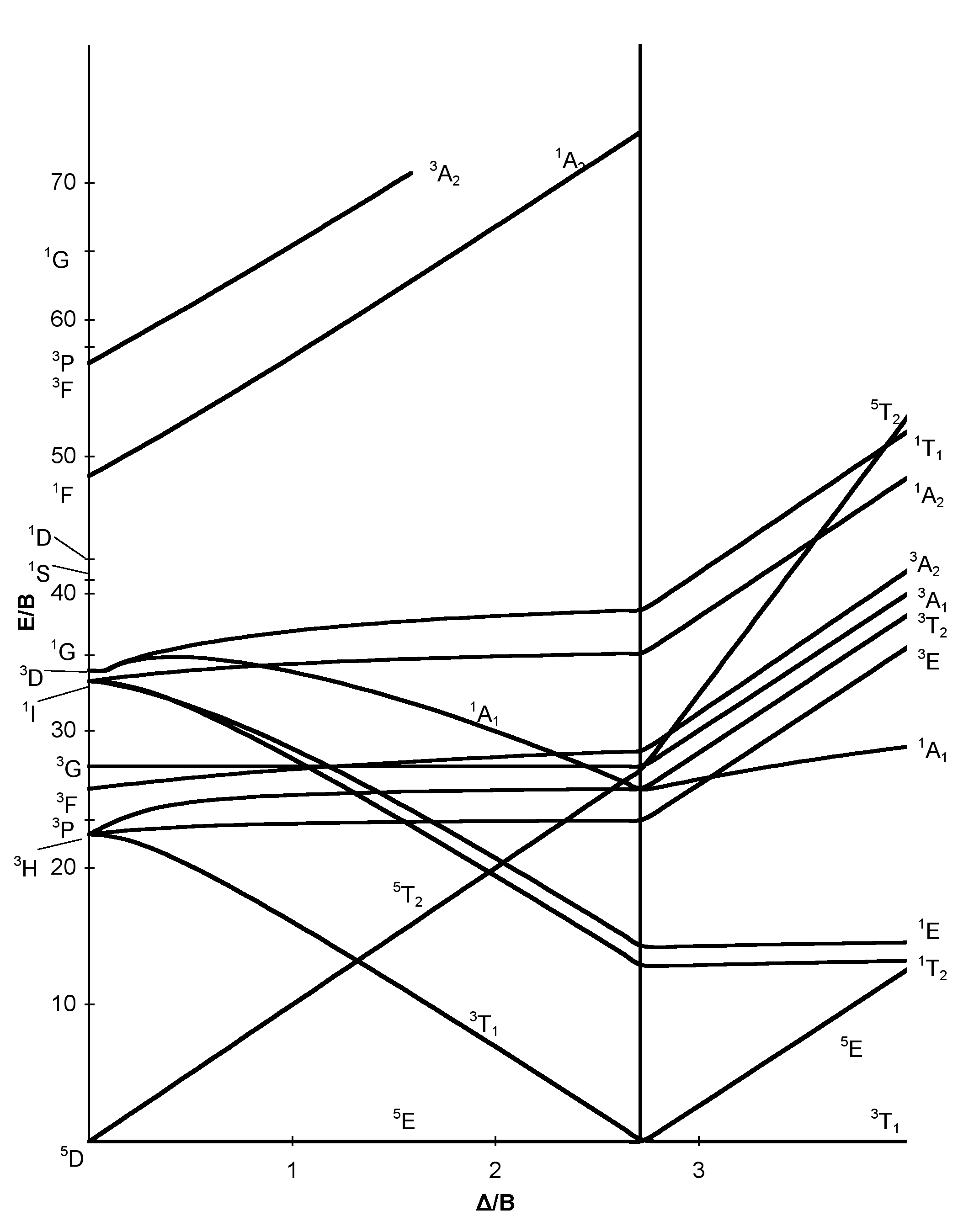 A Tanabe-Sugano diagram for the octahedral d4 electron configuration.